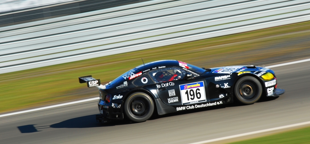 Hanspeter Strehler BMW Motorsport Z4 M